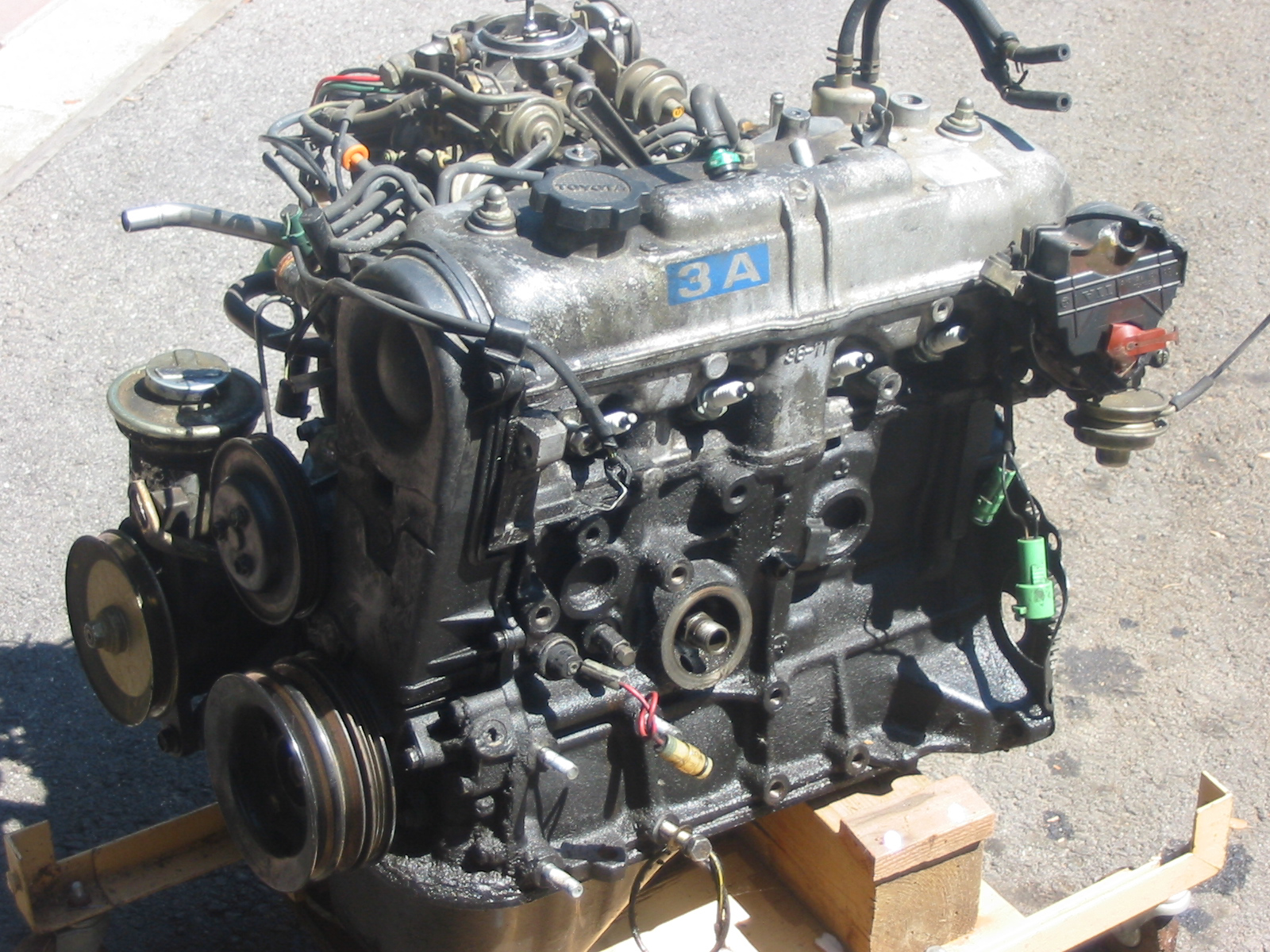 Toyota 3A-C engine.